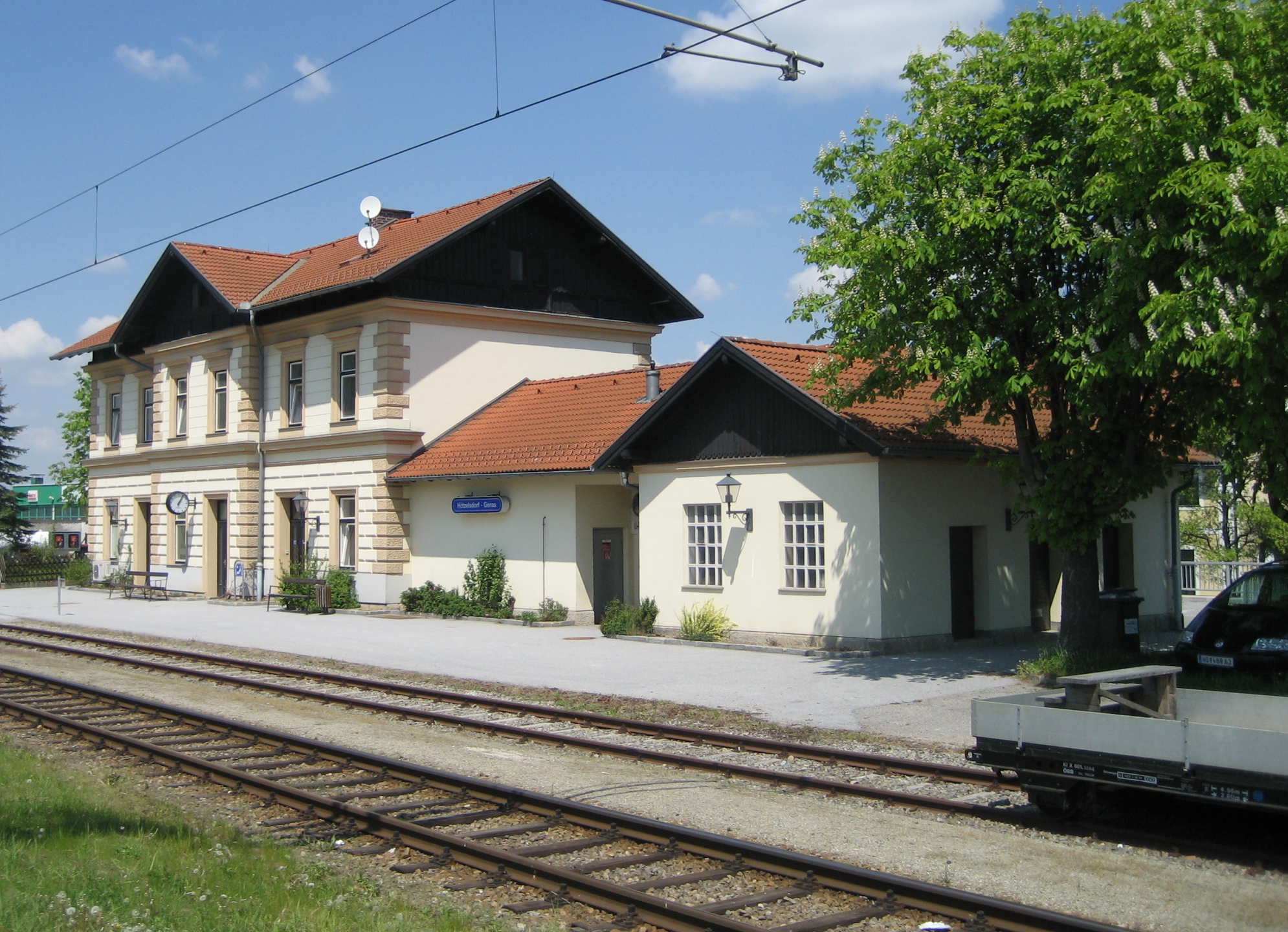 Hötzelsdorf-Geras train station in Lower Austria